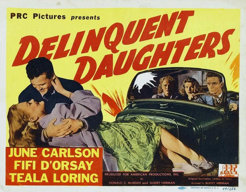 This is a movie poster for the film, Delinquent Daughters. Source: personal collection